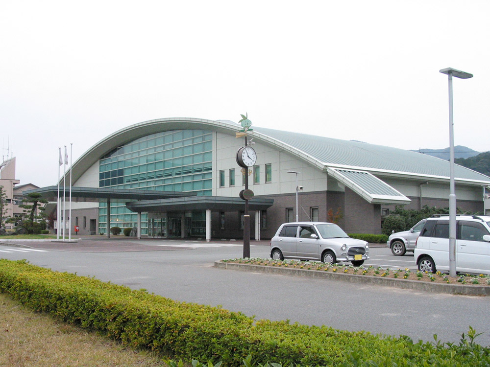 Odai Town Office in Mie Prefecture, Japan